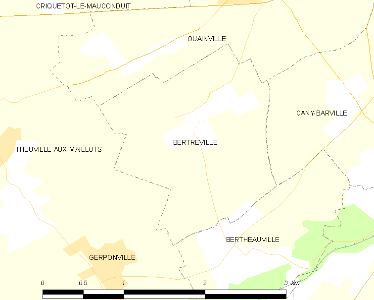 Map of French municipality Bertreville